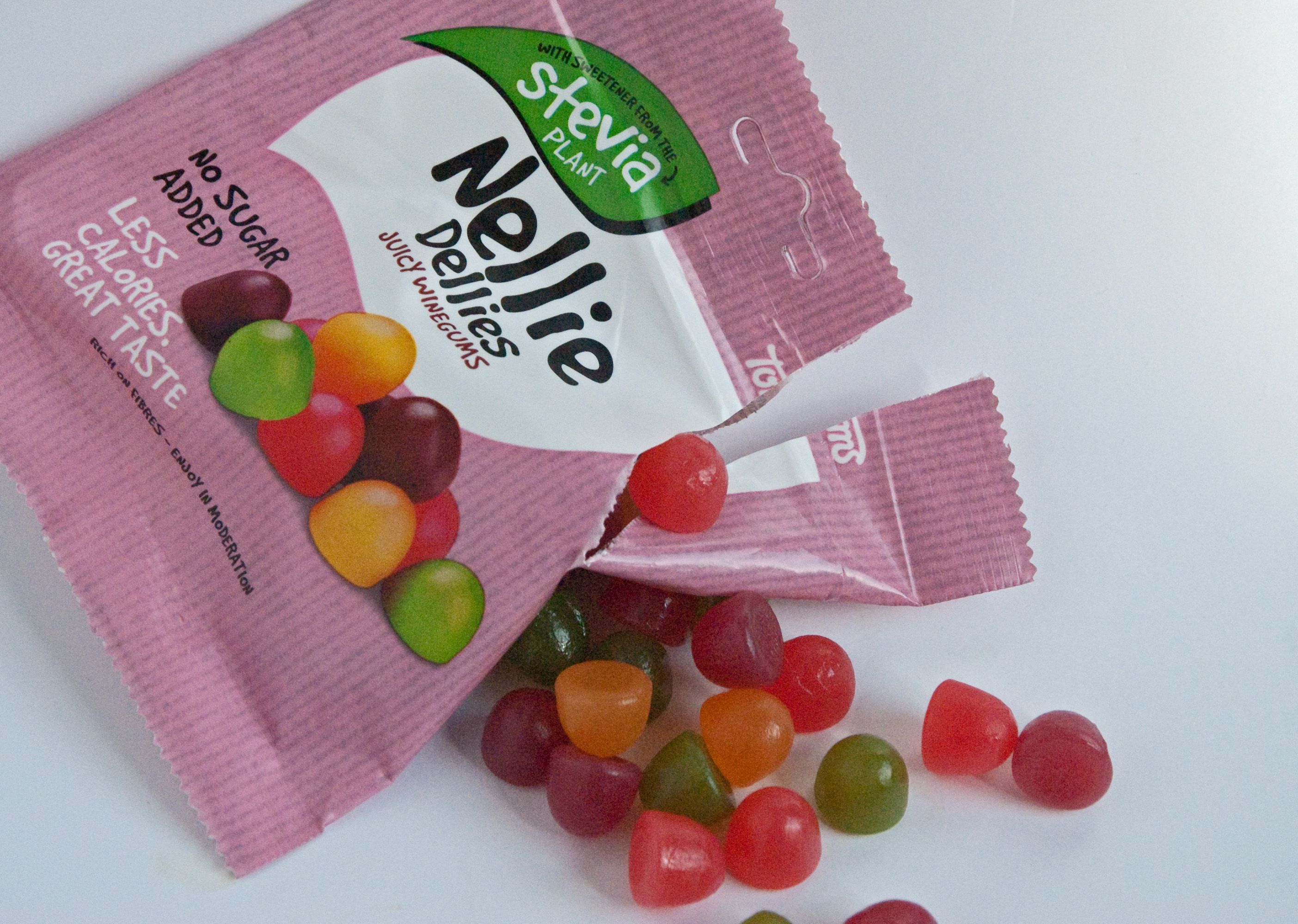 Stevia-sweetened winegums produced by Toms (June 2016)